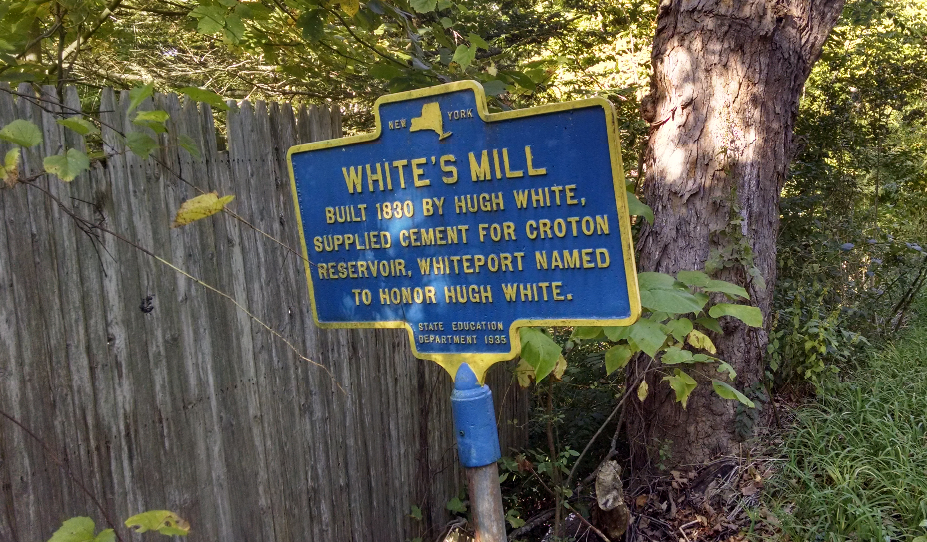 Historical marker for White's Mill on Whiteport Road in Bloomington, NY. Coordinates: 41°52'55.6"N 74°03'04.4"W